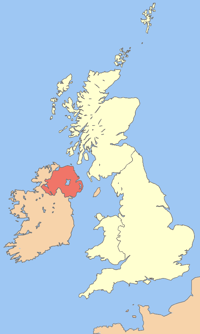 Image of Northern Ireland in the UK